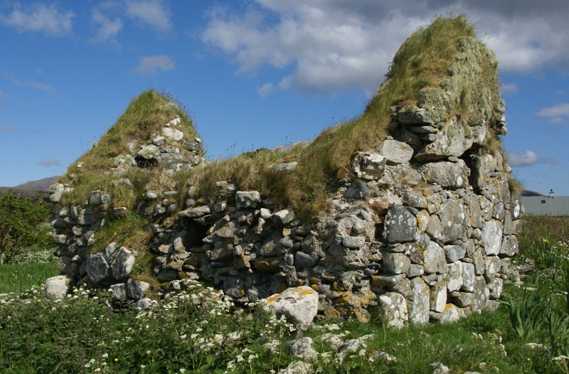 Howmore churches and chapels, Howmore (Tobha Mòr), South Uist, Outer Hebrides, Scotland - Dugall's Chapel (Caibeal Dubhail)